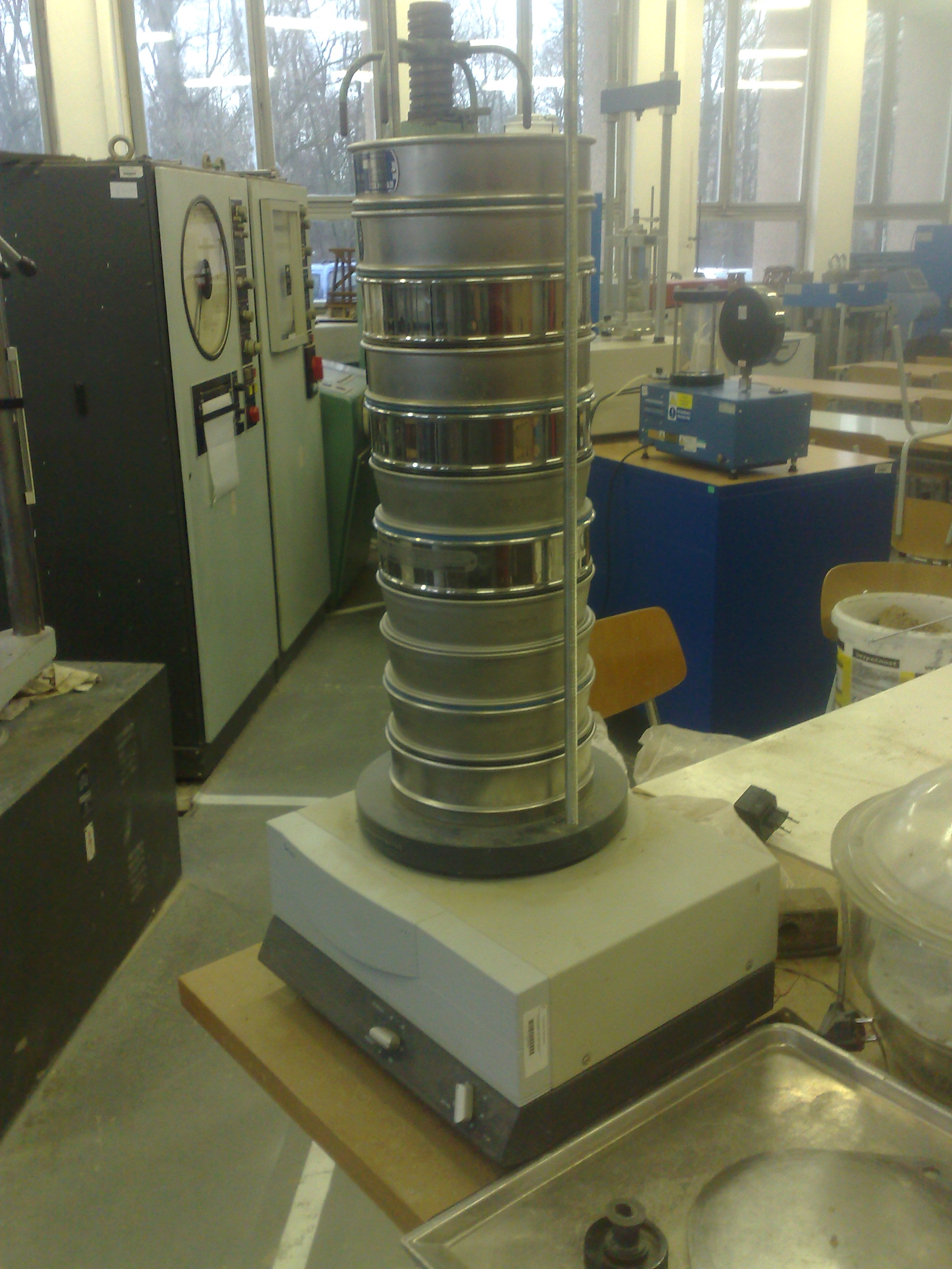 kit for screening and identification of soil grain size, composition: sieve with different sizes of holes from largest to smallest, the vibration plate